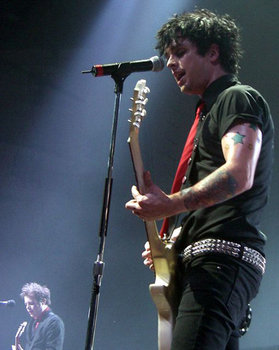 Billie Joe Armstrong of Green day. at the Cardiff leg of the UK 'American Idiot' tour.